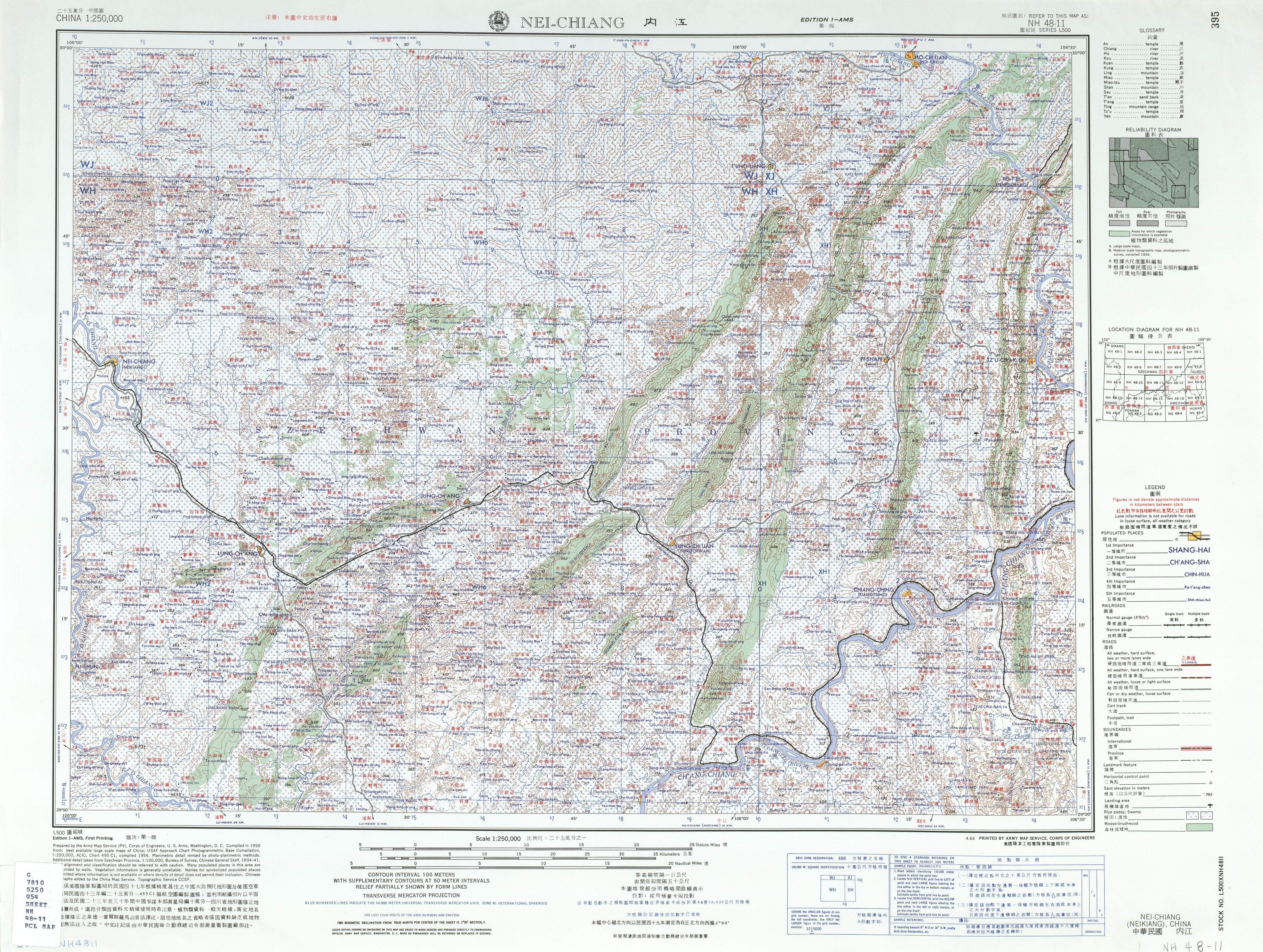 China AMS Topographic Maps